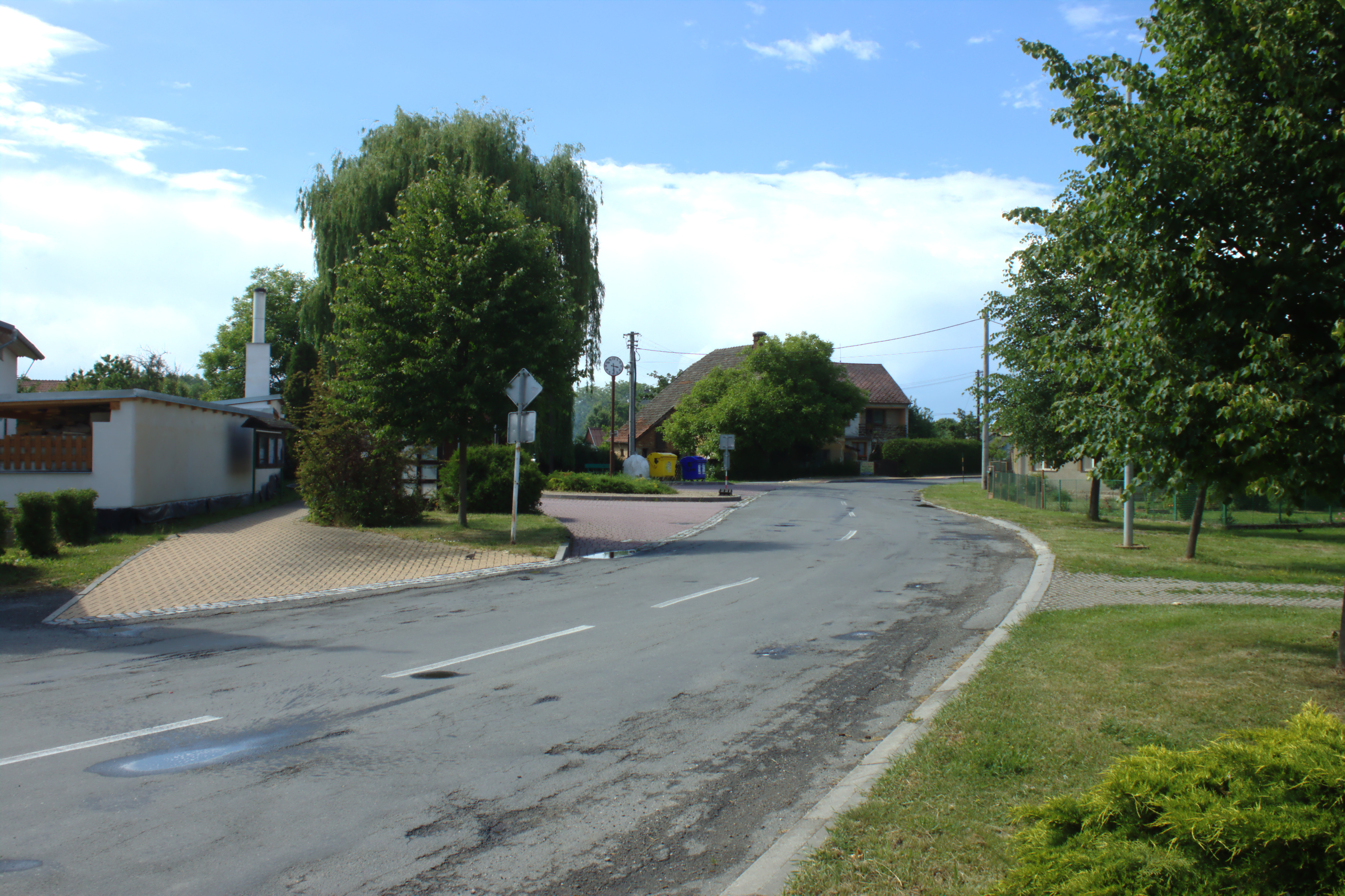 Main road with a bus stop in Králová, Olomouc Region, CZ